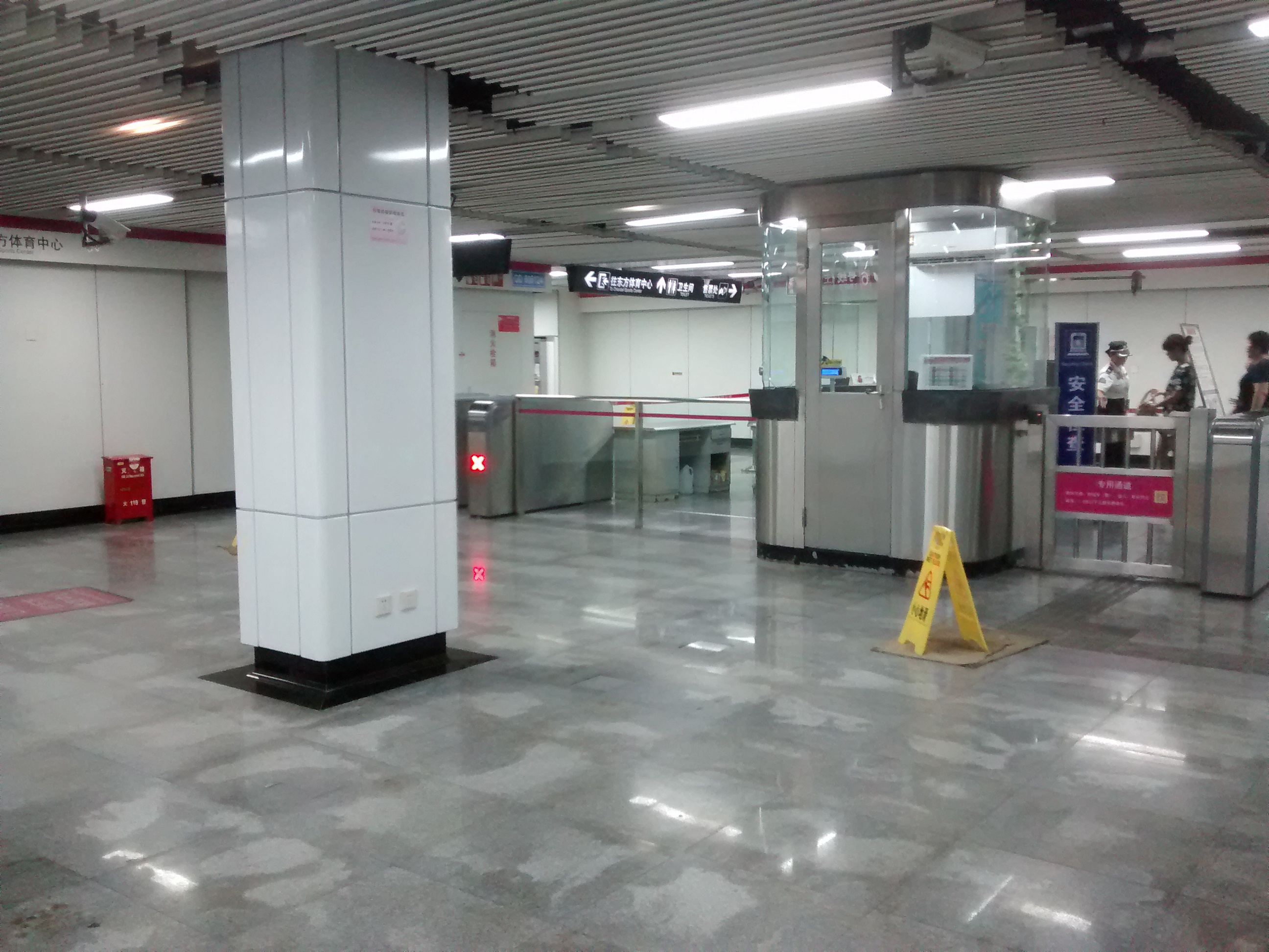 Beiyangjing Road Station, Shanghai. The latitude and longitude in the EXIF data are incorrect.